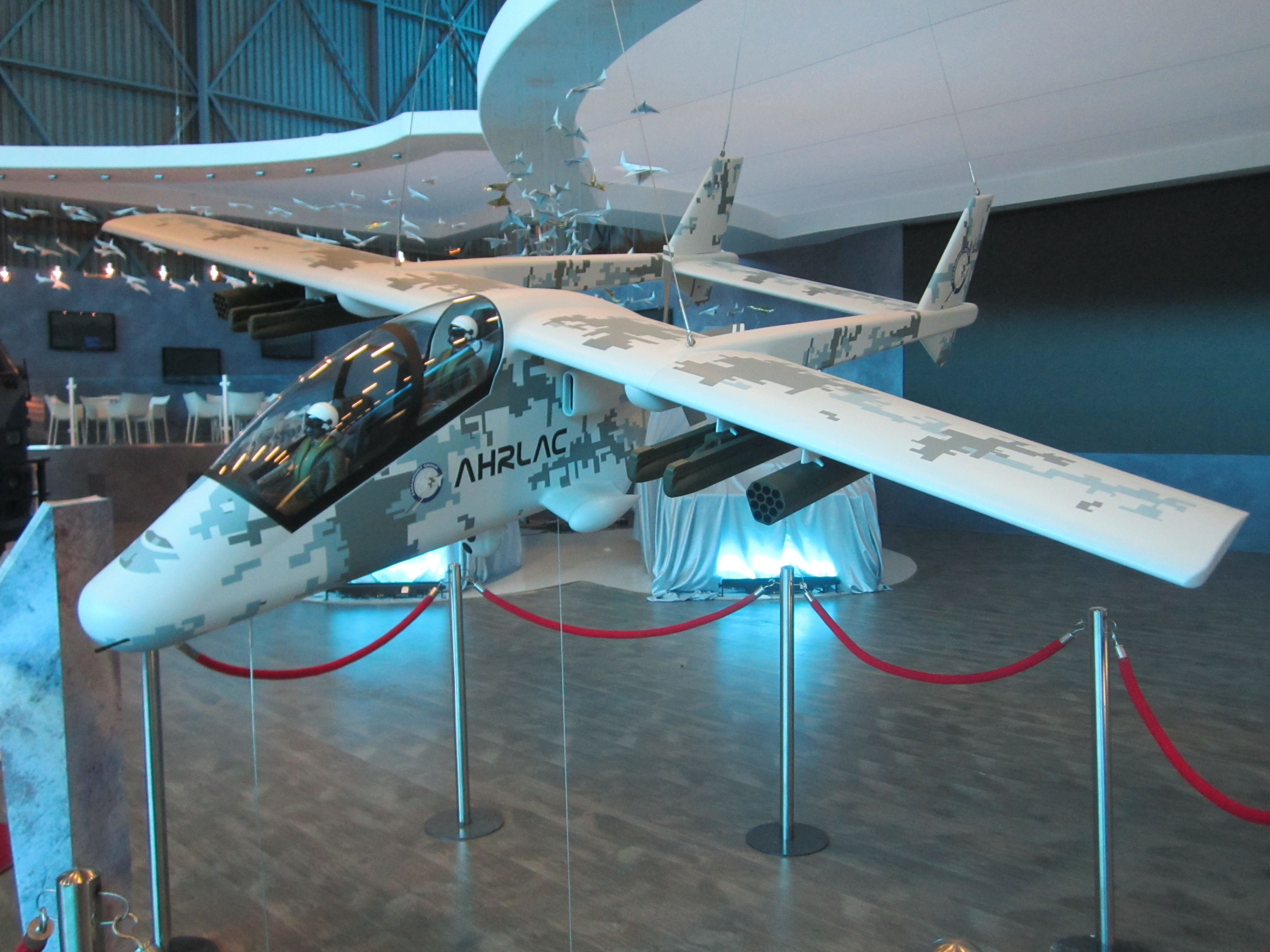 The model of AHRLAC on display by Aerosud and Paramount at AAD 2012